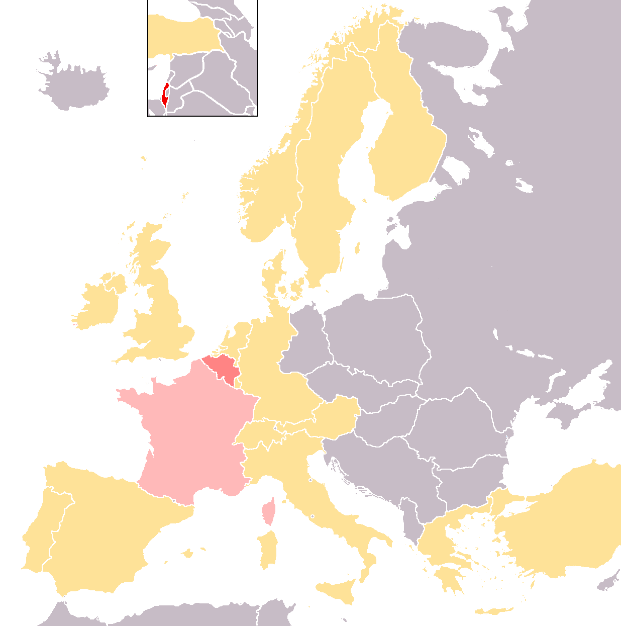 Map of Eurovision 1978